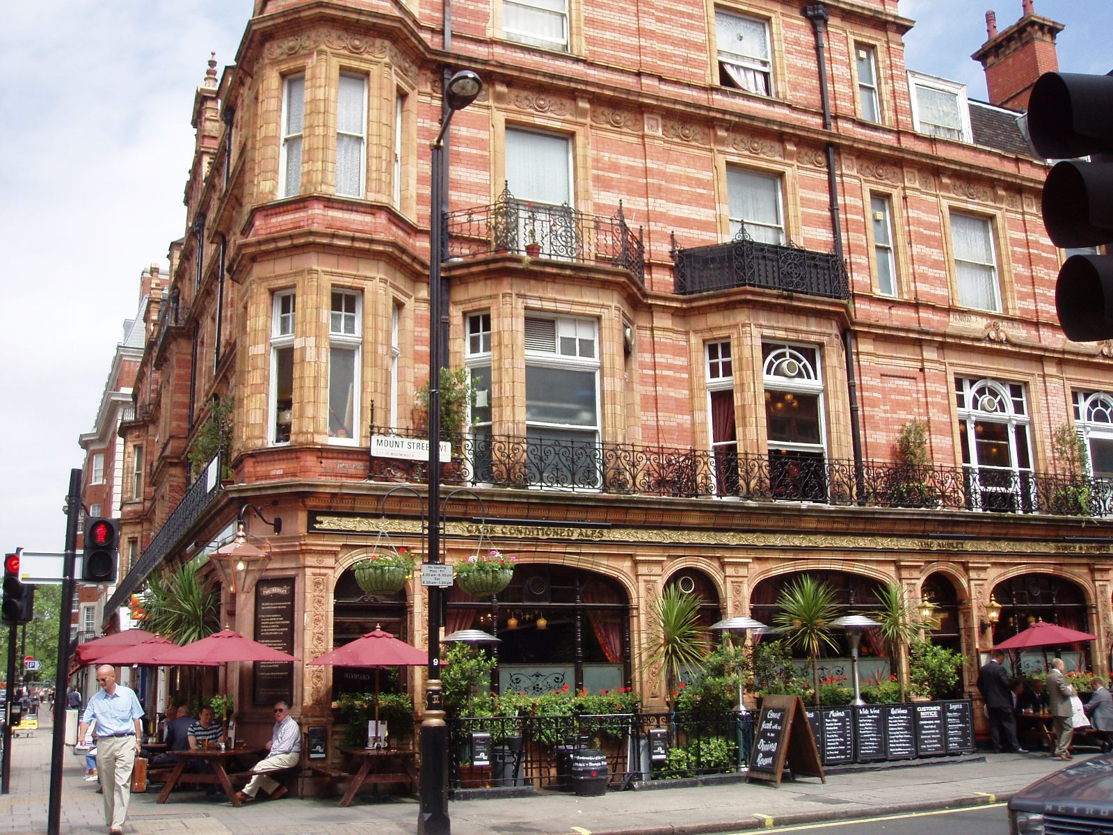 Audley, Mayfair, W1. A large and attractive building overlooks uber-posh South Audley St. Address: 41-43 Mount Street. Former Name(s): The Audley Arms; The Audley Hotel; The Bricklayers' Arms (on the same site). Owner: Spirit Pub Company [Taylor Walker] (website); Punch Taverns [Spirit Group] (former); Watney Combe Reid (former).